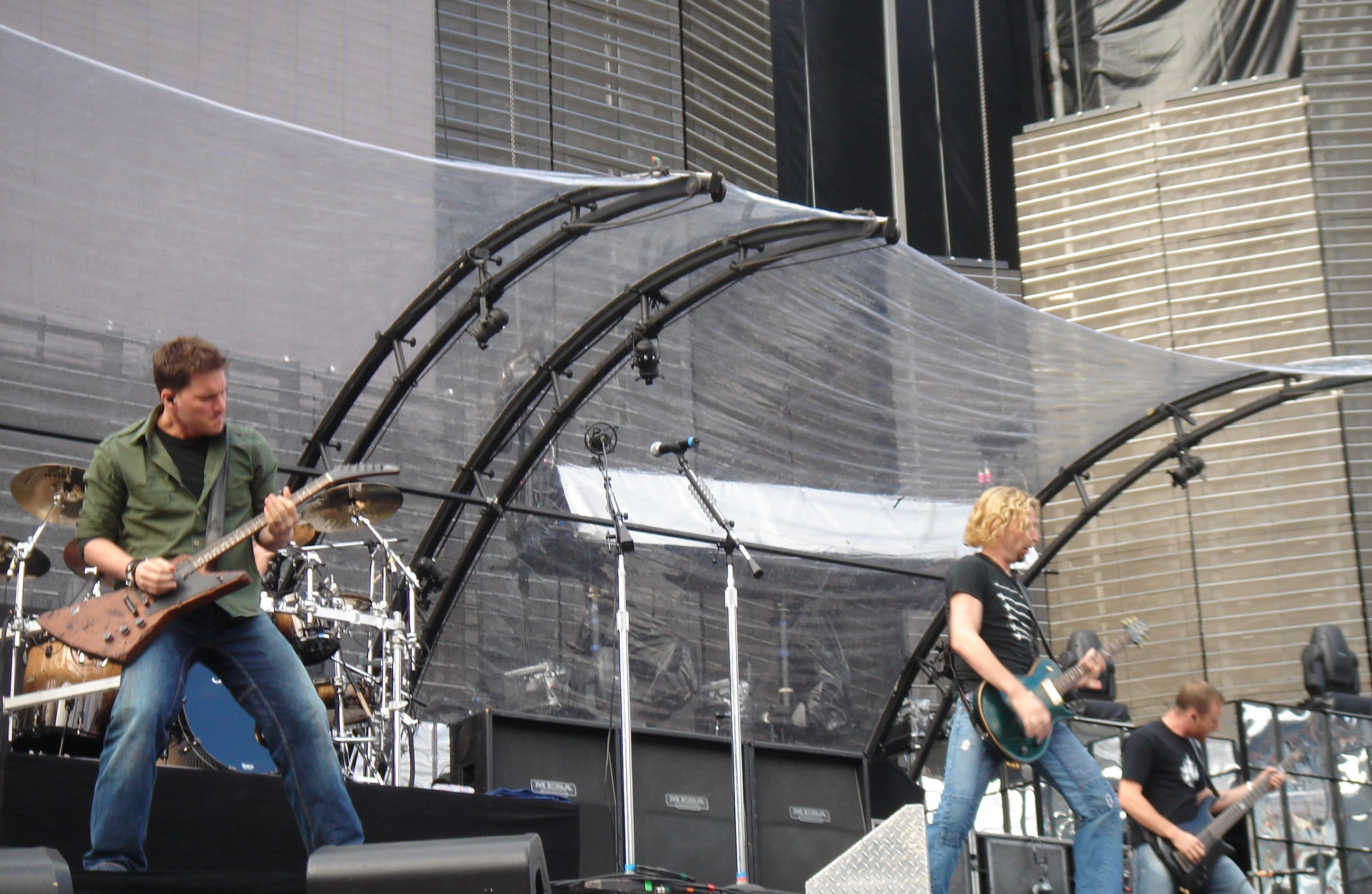 Ryan Peake lead guitarist with Nickelback live.